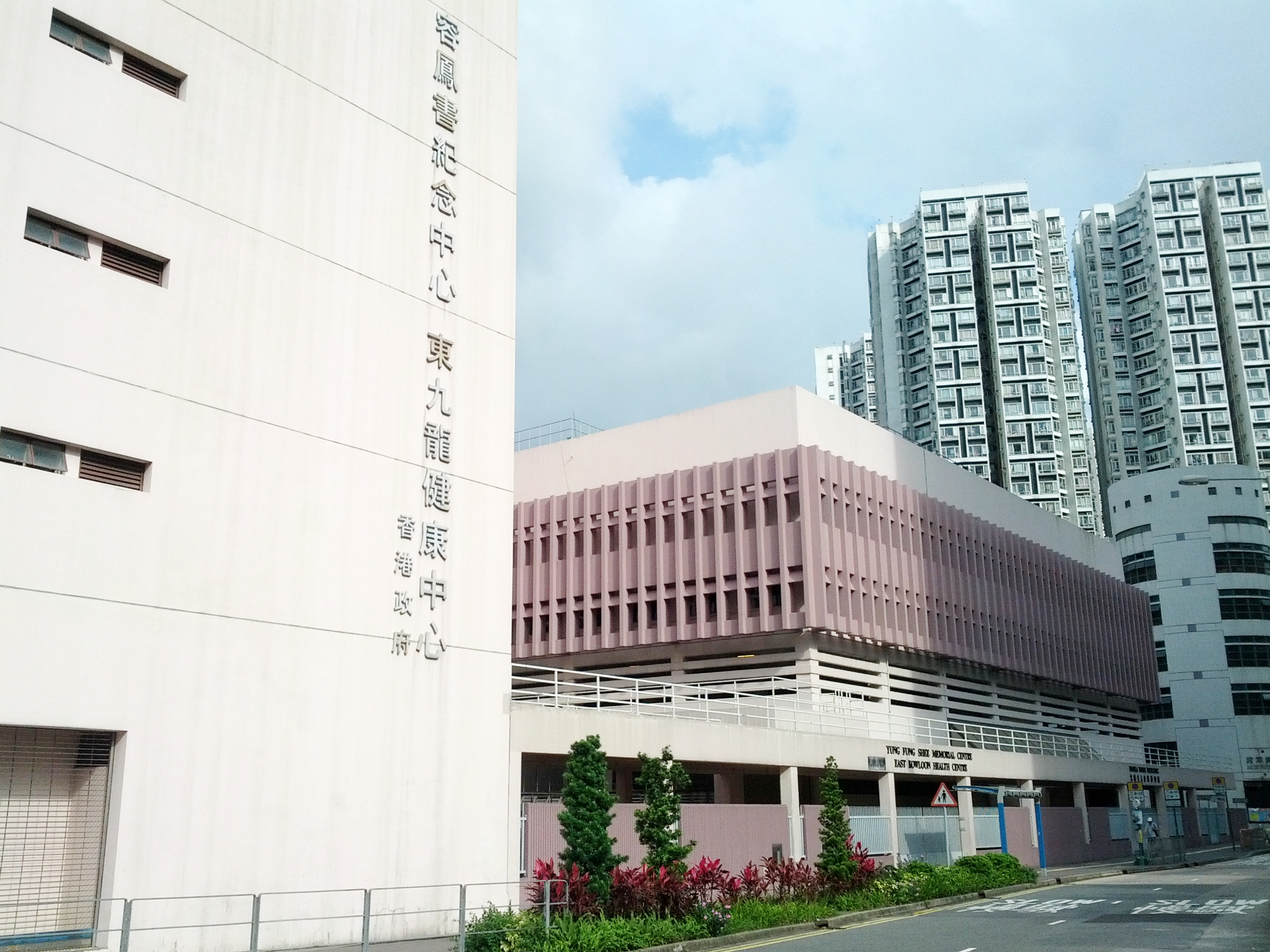 Yung Fung Shee Memorial Centre, a public health centre located at Kwun Tong, Kowloon. It was open to the public in 1984. 中文（香港）: 位於九龍觀塘的容鳳書紀念中心是一所公共健康中心，啟用於1984年。